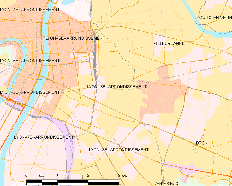 Map of French municipality